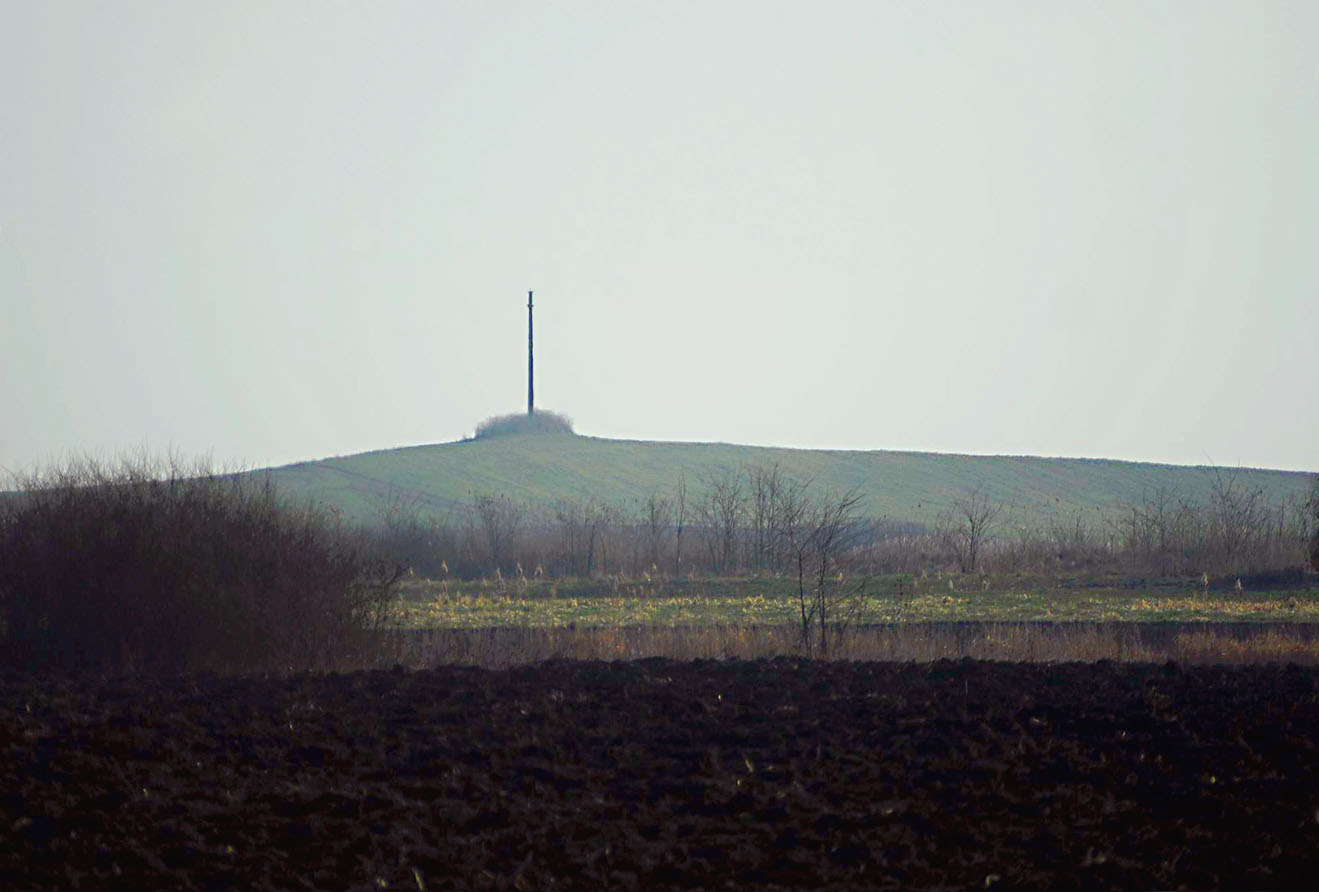 View from another angle. Code: BAN250